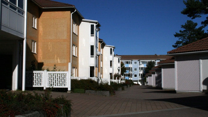 Hyreshus på Arkitektvägen